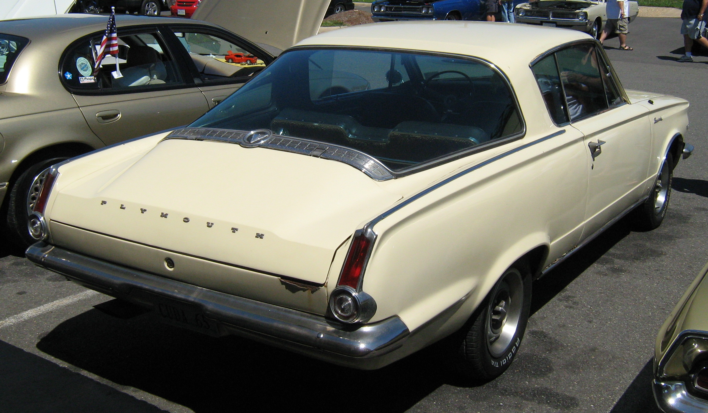 1965 Plymouth Barracuda fastback - finished in ivory